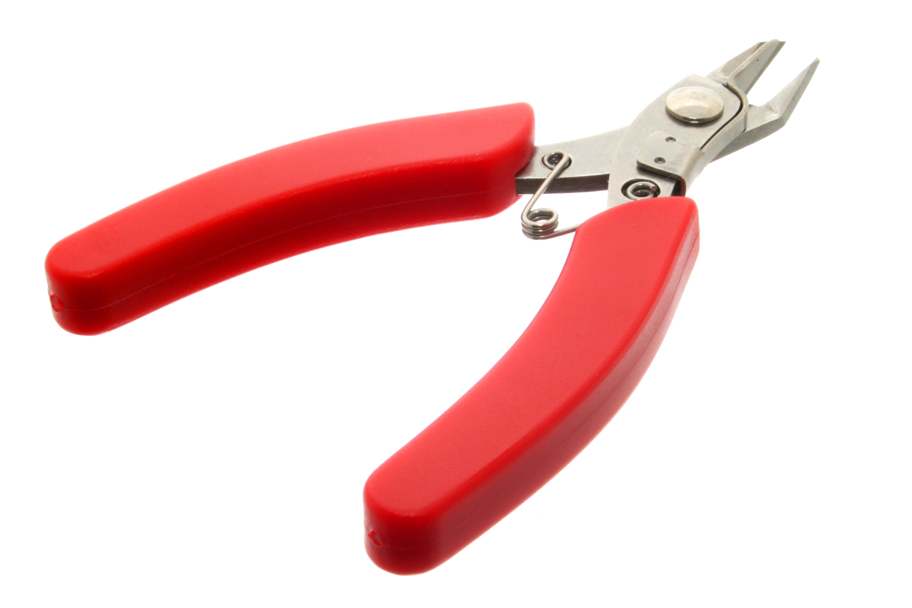 Basic Wire cutters.